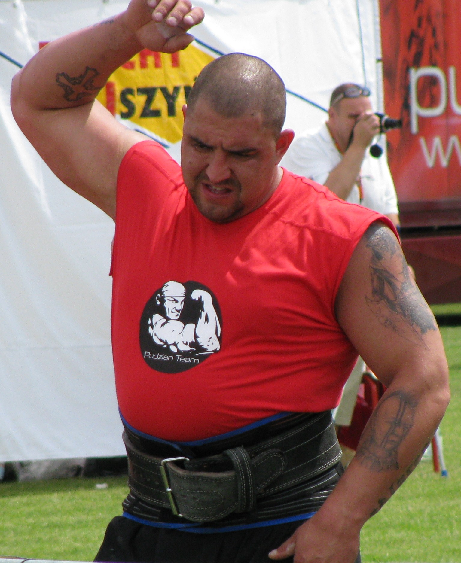 Raivis Vidzis - a strength athlete from Latvia